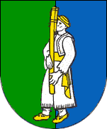 Coat of arms of Hriňová, Slovakia